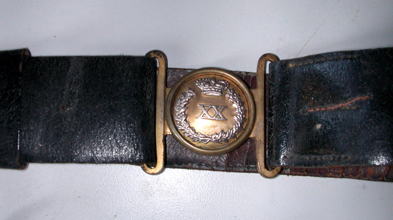 Arnott's belt buckle worn whilst attending Napoleon on his death bed. Buckle is the Regiment Badge of the 20th Foot. Collection of the Yuko Nii Foundation. Took picture myself from my collection